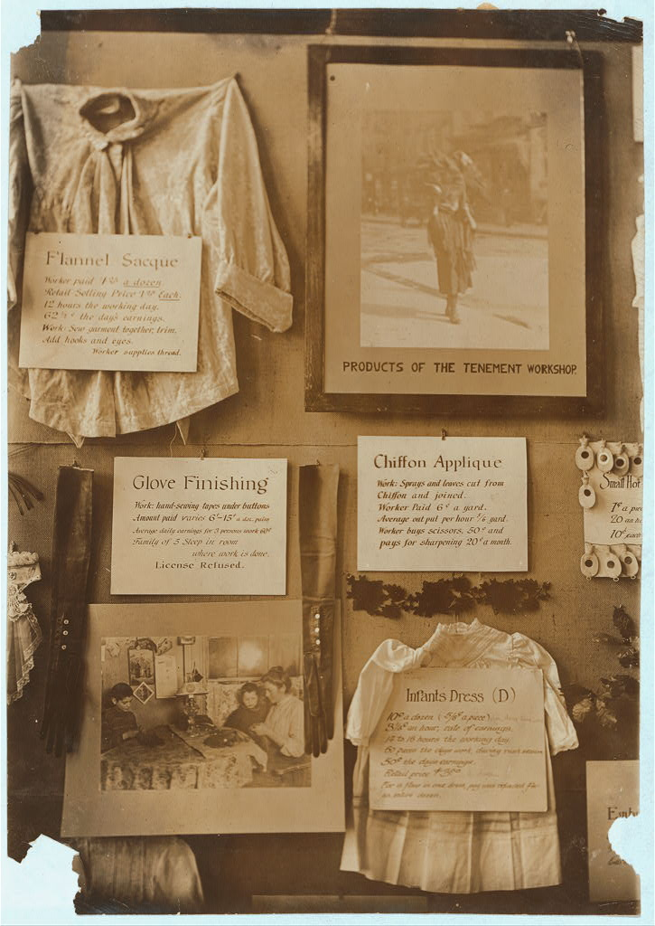 Part of exhibit, N.Y.C.L. and Consumers League. Location: New York, New York (State)